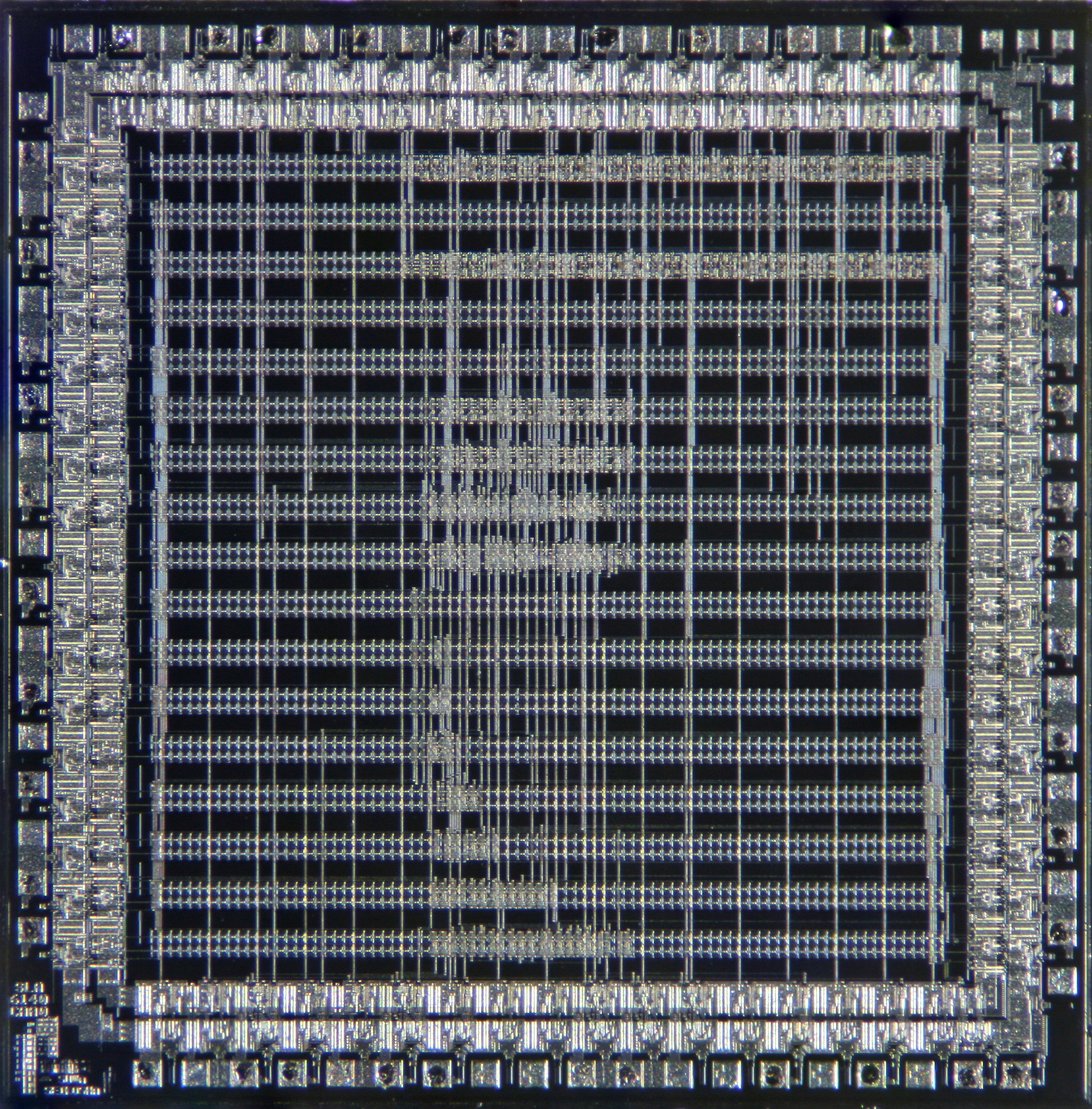 The S-MOS Systems SLA6000 series consists of a group of 8 CMOS gate arrays with gate counts from 513 to 6,206 gates. The series is fabricated utilizing a 2.0 micron high speed CMOS silicon gate technology to achieve propagation delays of ins for the internal gates and 5ns to 7ns for the I/O buffers. The SLA6140 contains 1394 gates, had a minimum of 906 and maximum of 1115 usable gates, and 74 I/O pads.